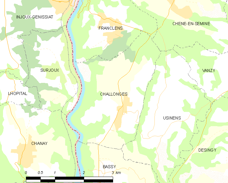 Map of French municipality Challonges